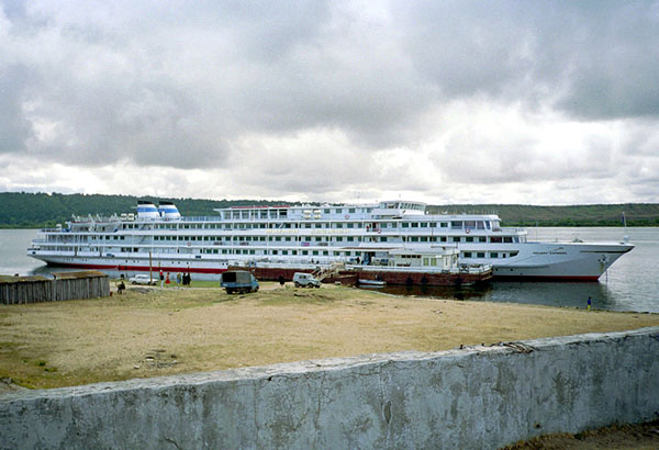 River cruise ship Mikhail Kalinin (later Mstislav Rostropovich) in Makaryev 2002